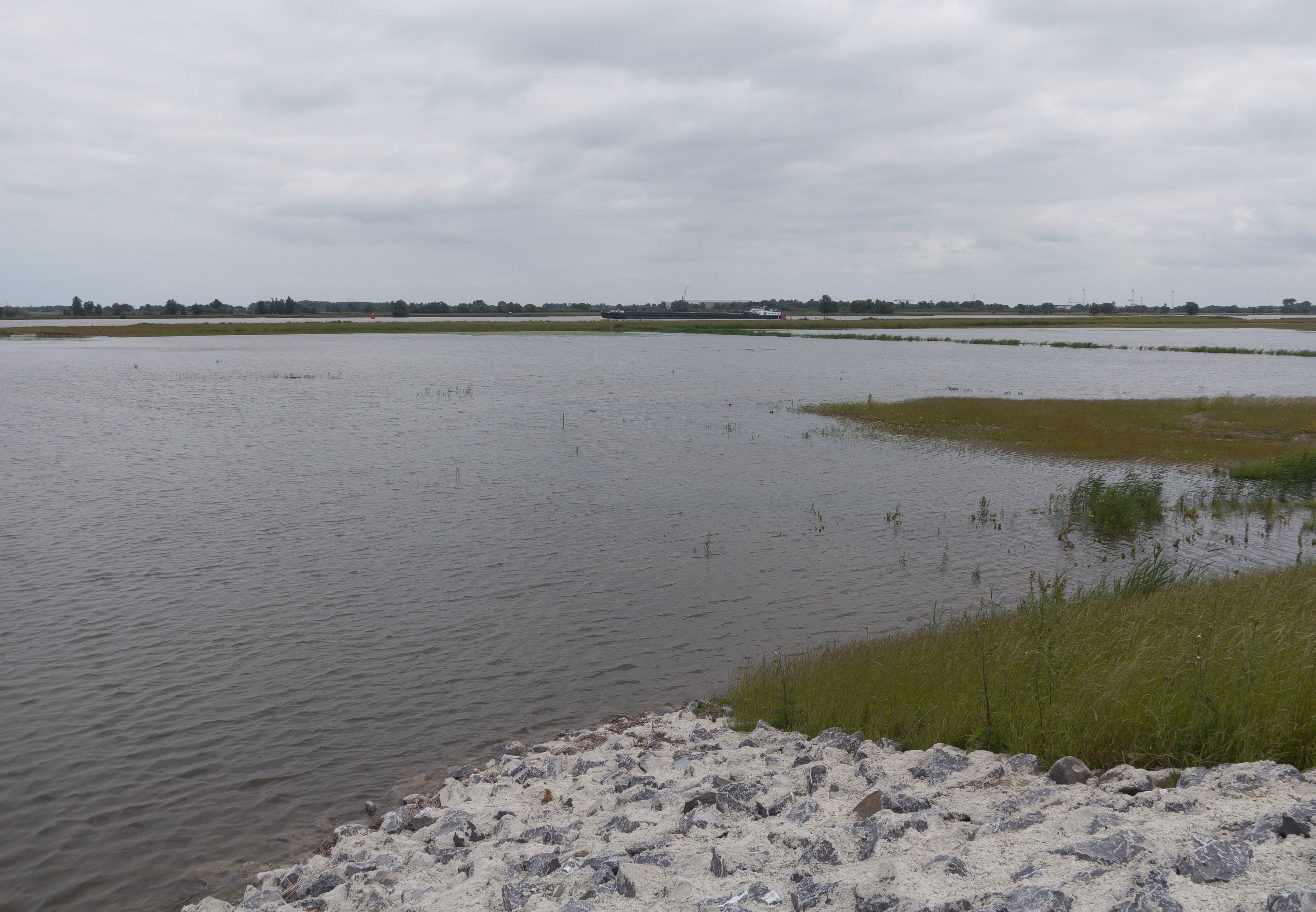 Kievitswaard, view to the river (de Nieuwe Merwede) from de Bandijk